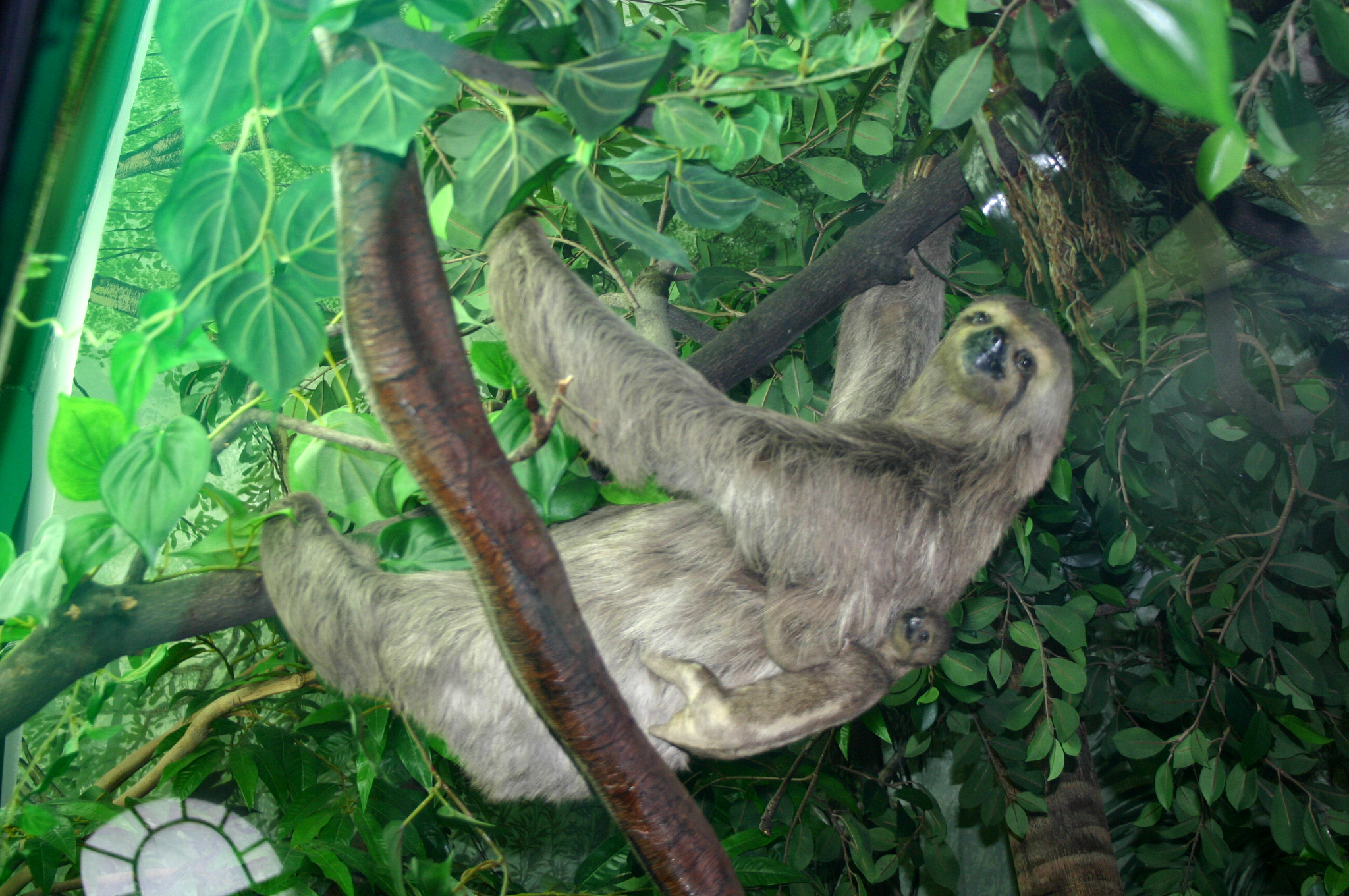 The Natural history museum in Milan, Italy. Diorama with a Bradypus tridactylus. Picture by Giovanni Dall'Orto, April 22 2007.